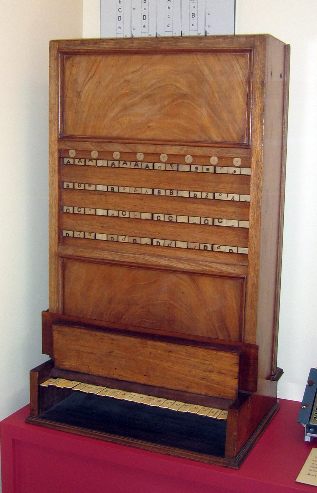 A photograph of the Logic Piano invented by William Stanley Jevons. Photograph taken by User:Nelson at the Sydney Powerhouse Museum on March 5, 2006. There is a copy of this photo on Flickr. This item is part of the collection of the Museum of the History of Science, Oxford and was on loan to the Powerhouse Museum [1].